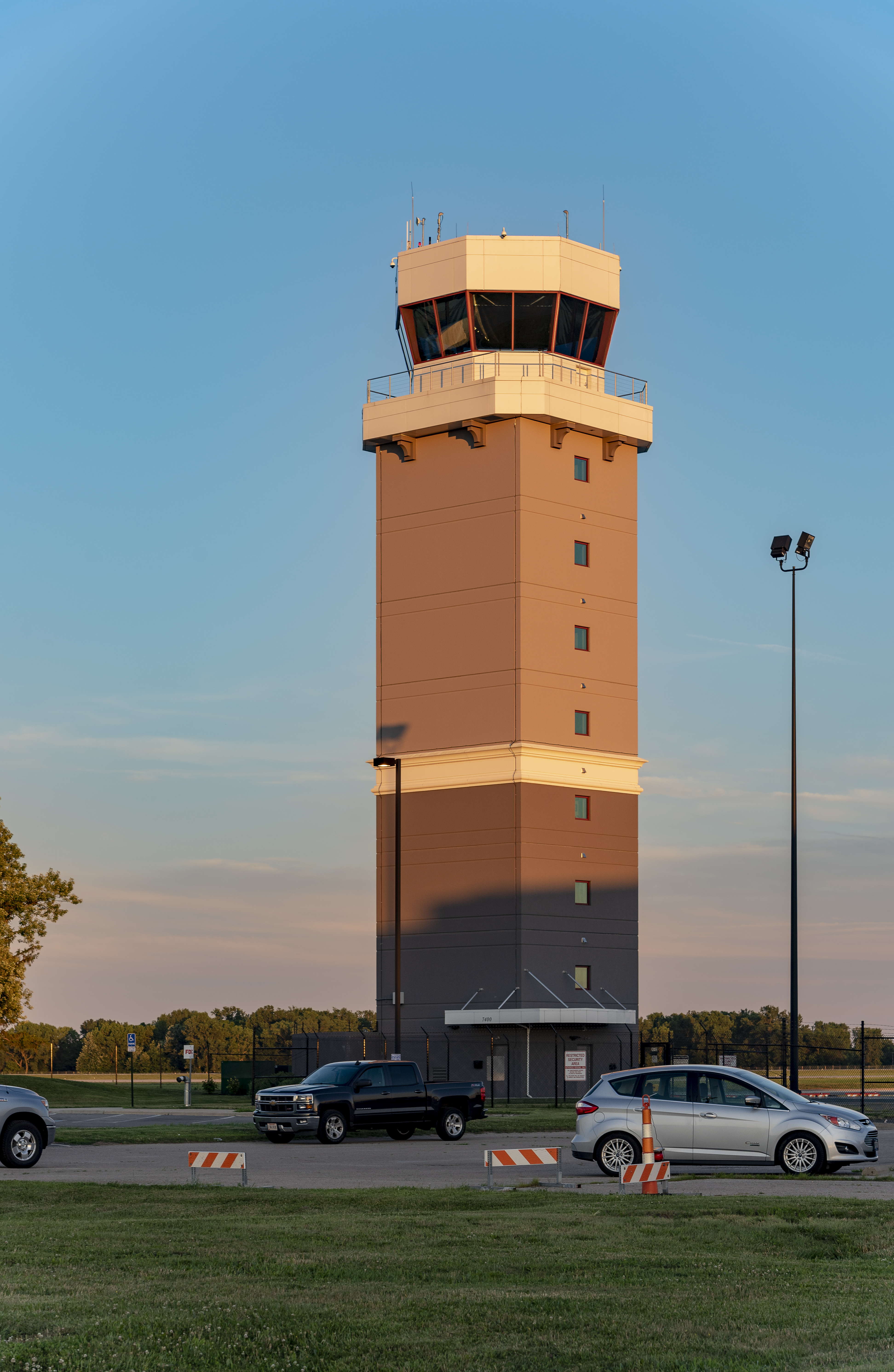 The new ATC tower at Rickenbacker International Airport, exposure from the north, taken at sunset.